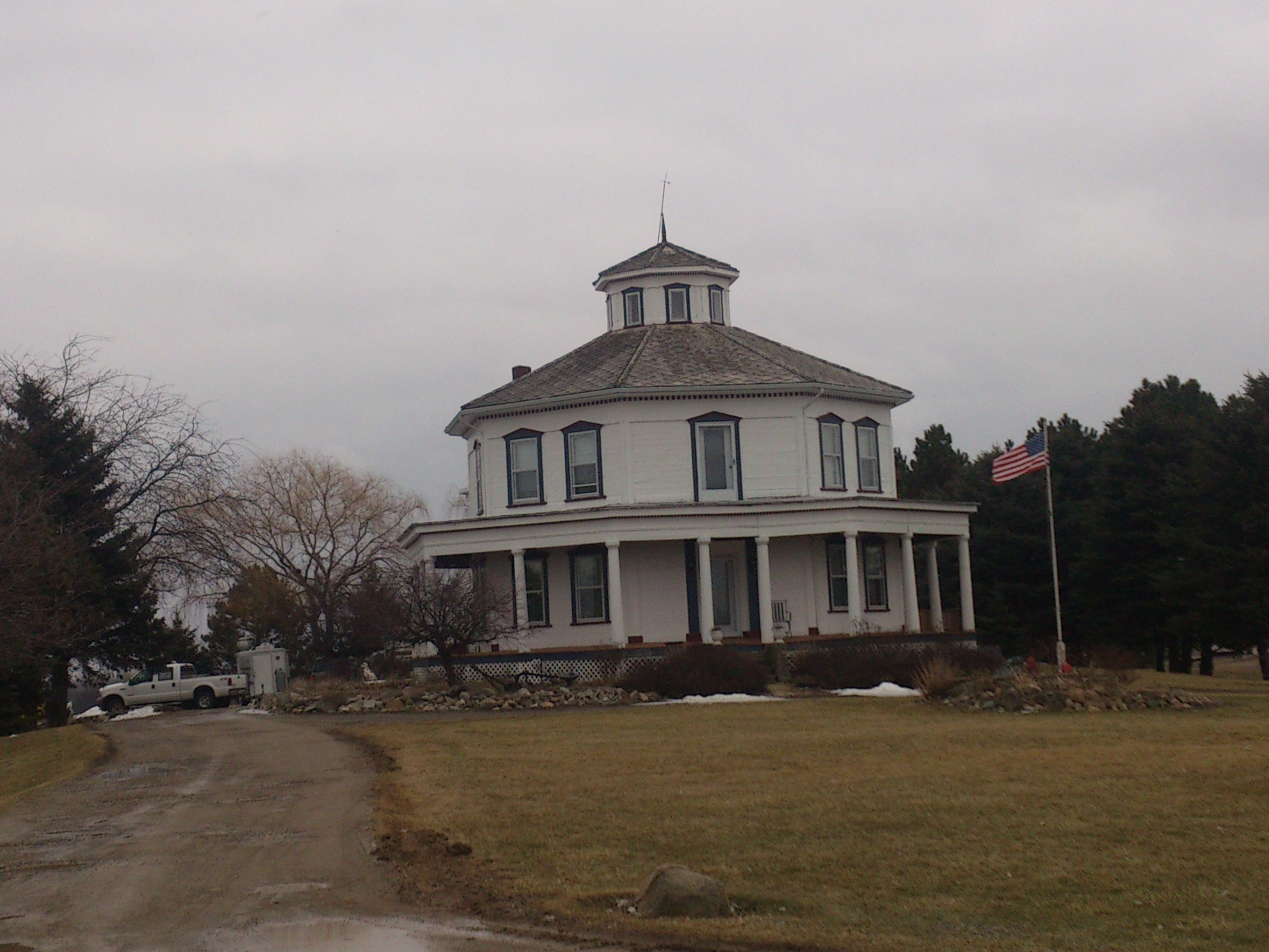 Randall Octagon House in Mayville, Michigan was built by William Randall in 1870 and is still owned by the same family.